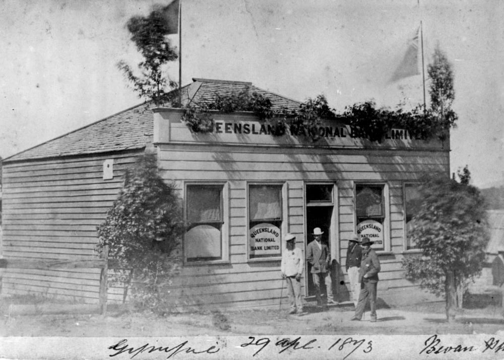 Queensland National Bank Limited in Gympie, 1873 Staff standing outside the Queensland National Bank. The bank is decorated for the visit of the Marquis of Normanby ( Description supplied with photograph). Gympie is a city in south-eastern Queensland, situated on the Mary River about 162 kilometres north of Brisbane. Gympie is the centre of an important dairying and agricultural district. In the early days timber was a significant industry.